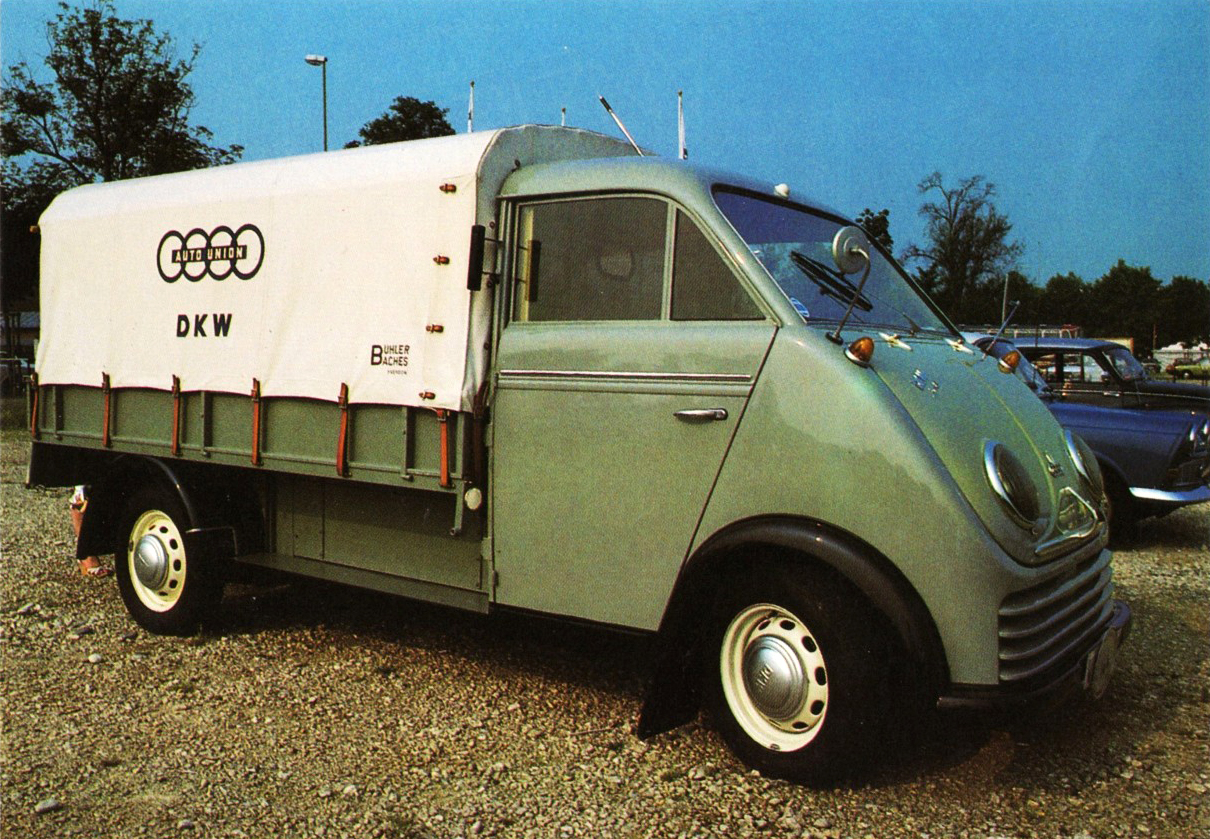 1955 DKW F 89 L Long Wheelbase Flatbed. Well ahead of its time! 1955 DKW F 89 L Cama plana, batalla larga. Muy por delante de su tiempo!